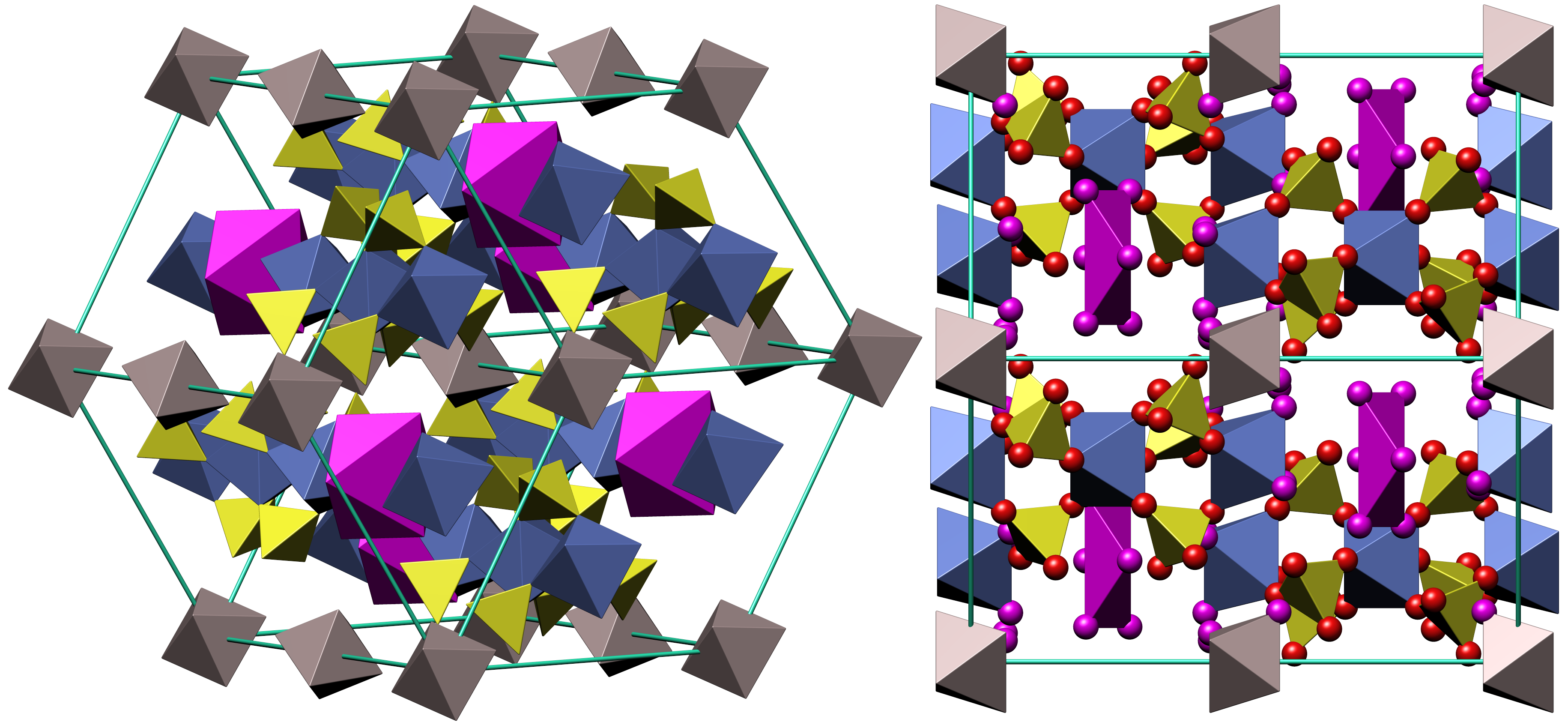 Crystal structure of coquimbite - Fe2(SO4)3•9H2O. Fang J H, Robinson P D Colour code: Aluminum, Al: wenge Sulfur, S: olive Iron, Fe: blue Oxygen, O: red Water, H2O: magenta Cell: blue-green